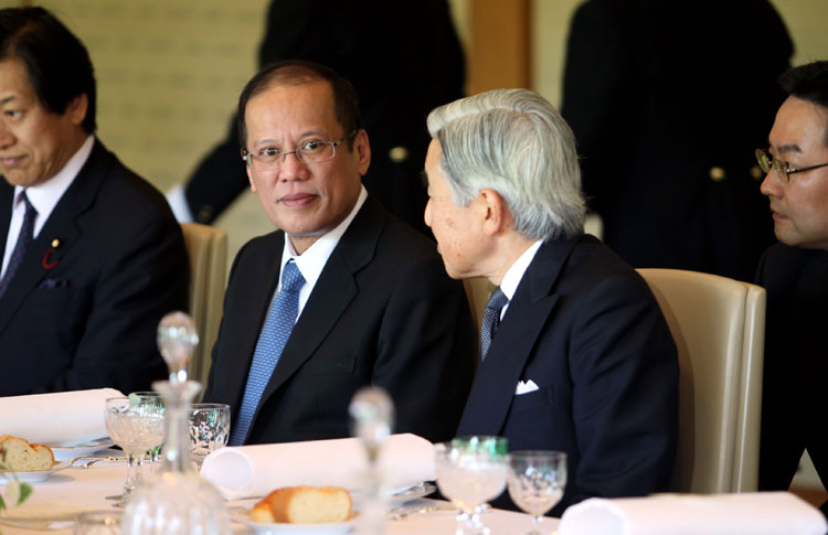 Benigno Aquino III, President, conversed with Emperor Akihito during the State Luncheon at the Dining Room, Tokyo Imperial Palace in Chiyoda Ward, Tōkyō Metropolis on September 28, 2011.